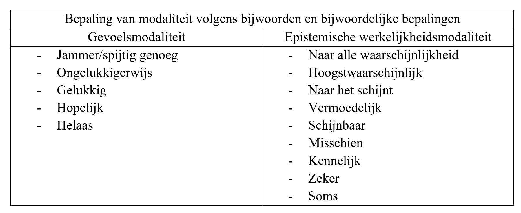 Modal adverbs in Dutch